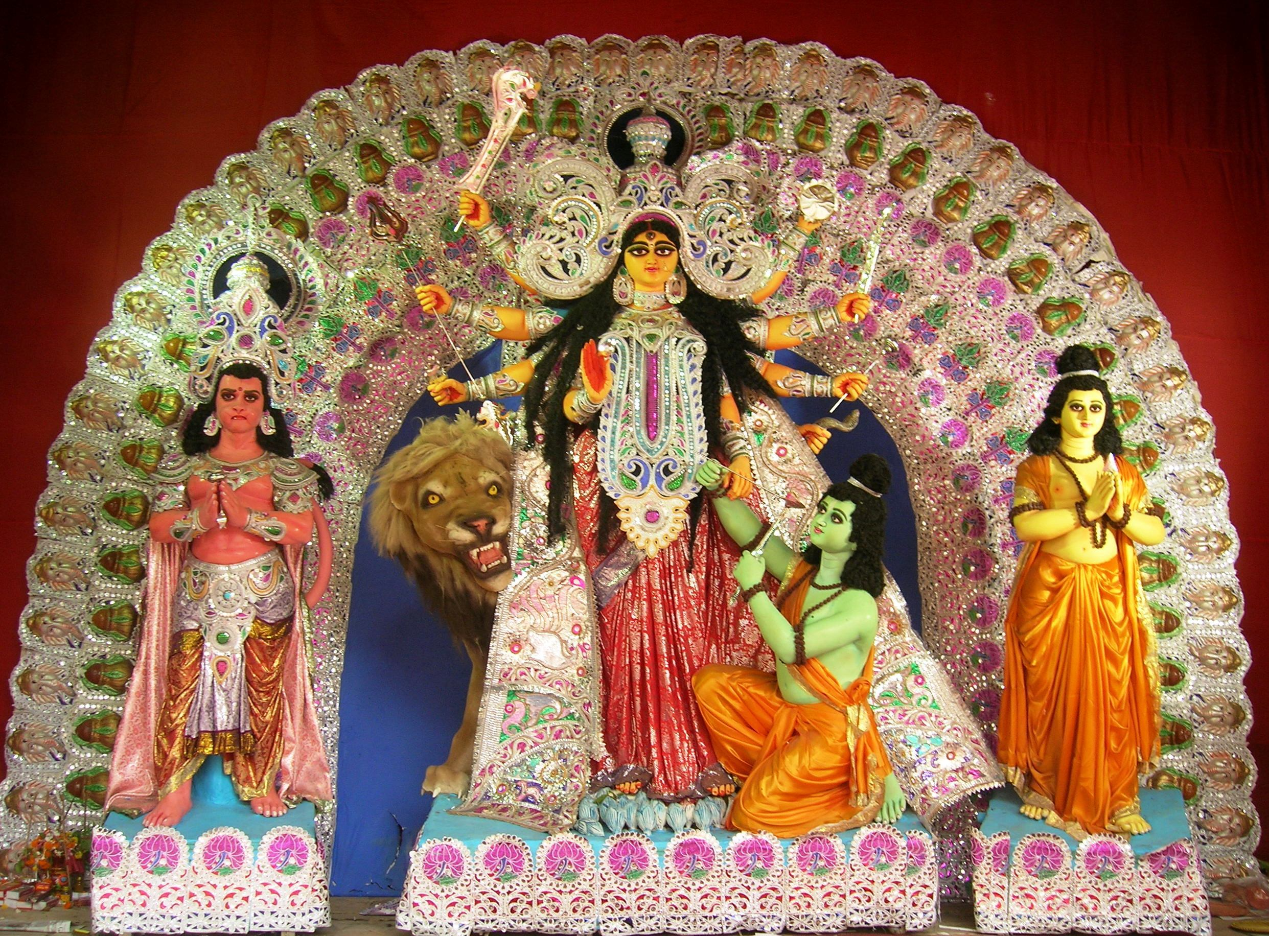 Depiction of Ram's Akalbodhan from Krittivasi Ramayana at Venus Club, Kidderpore, Kolkata, 2010.